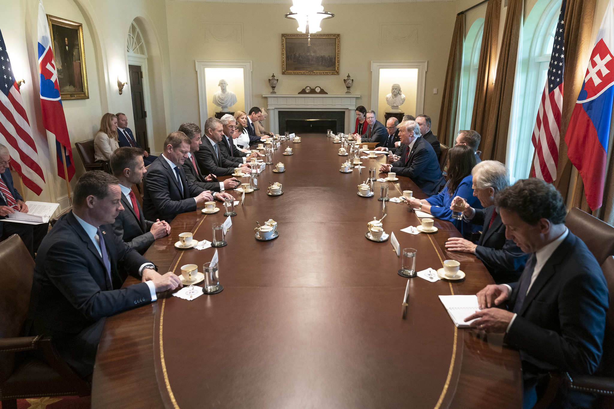 President Donald J. Trump meets with Slovak Prime Minister Peter Pellegrini Friday, May 3, 2019, during an expanded bilateral meeting in the Cabinet Room of the White House. (Official White House Photo by Shealah Craighead)